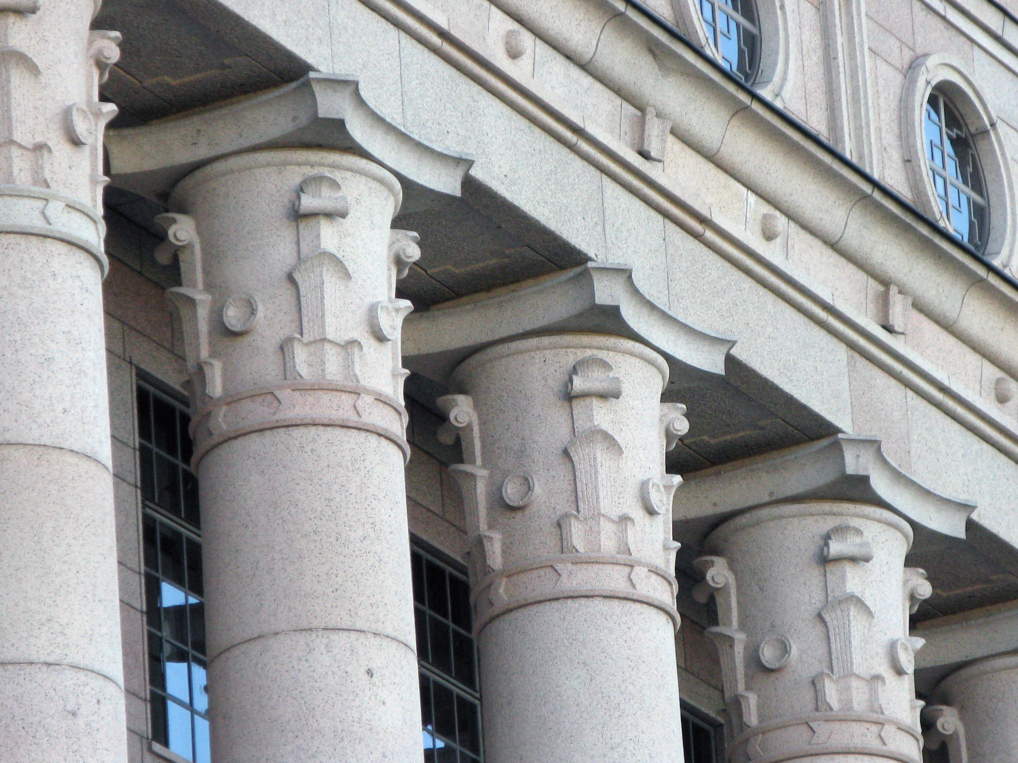 The Parliament House in Helsinki, Facade detail.